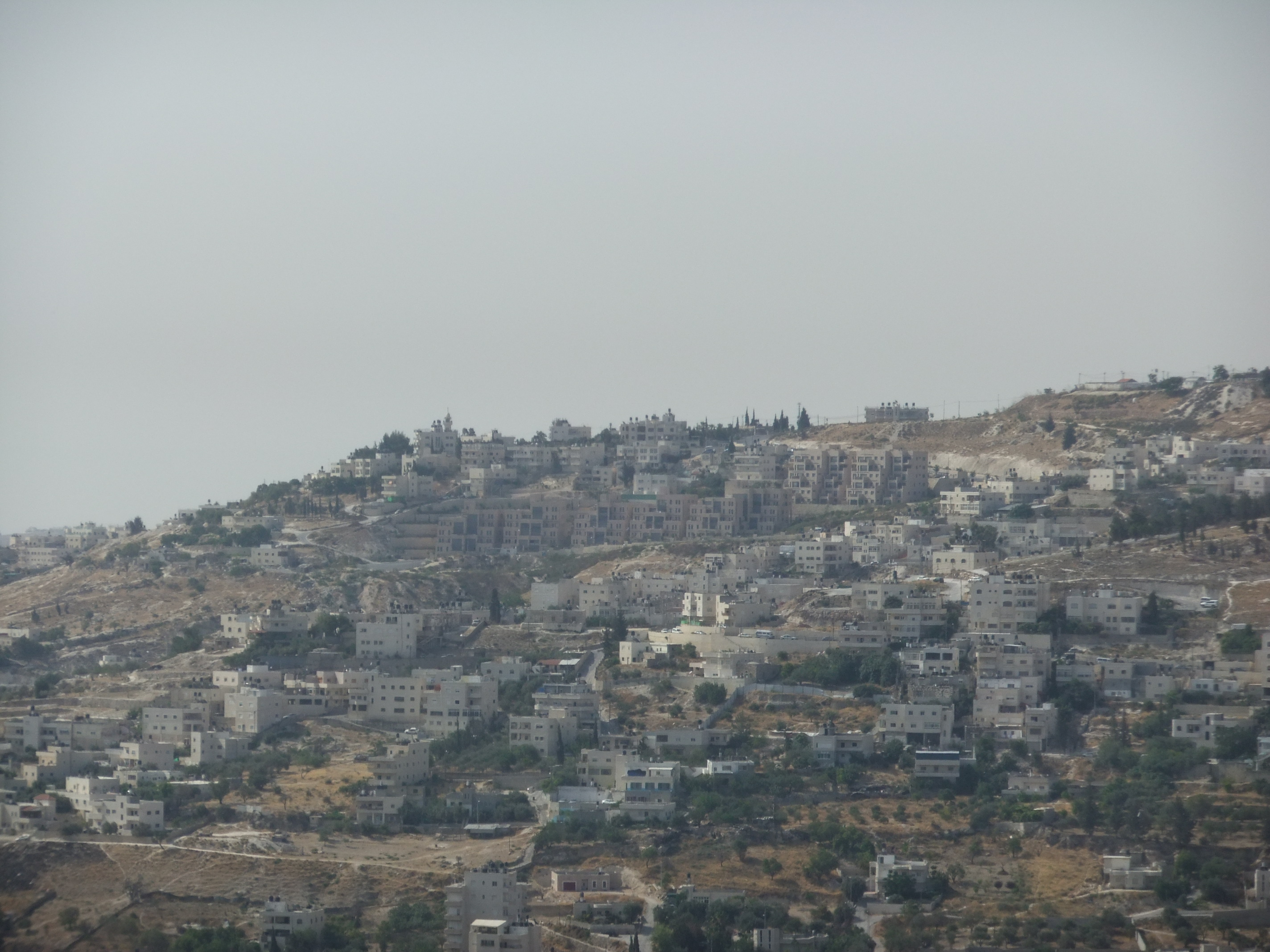 The Jewish neighborhood of Nof Zion surrounded by the houses of Jabbel Mukkaber. On the top right is the Jabbel Mukkaber police station. The picture was taken from outside the old city between ashpot and Zion gates.